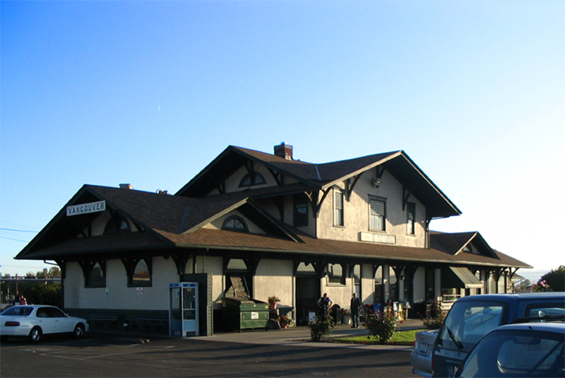 View of Amtrak station at Vancouver, Washington, USA